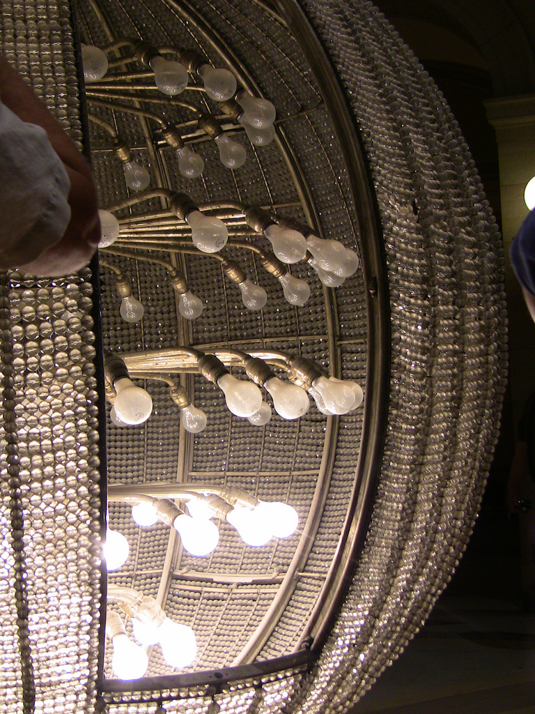 Access Door of Electrolier Open to Show Bulbs Three large access doors in the Minnesota State Capitol's electrolier open to reveal branches bearing the fixture's 92 light bulbs. The Minnesota State Capitol, completed in 1905, was one of the first public buldings in Minnesota to feature electric lighting.